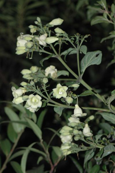 Macrocarpaea apparata in southern Ecuador.